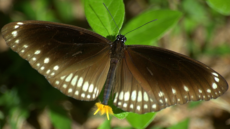 Male Common Crow with extruded yellow hair pencils